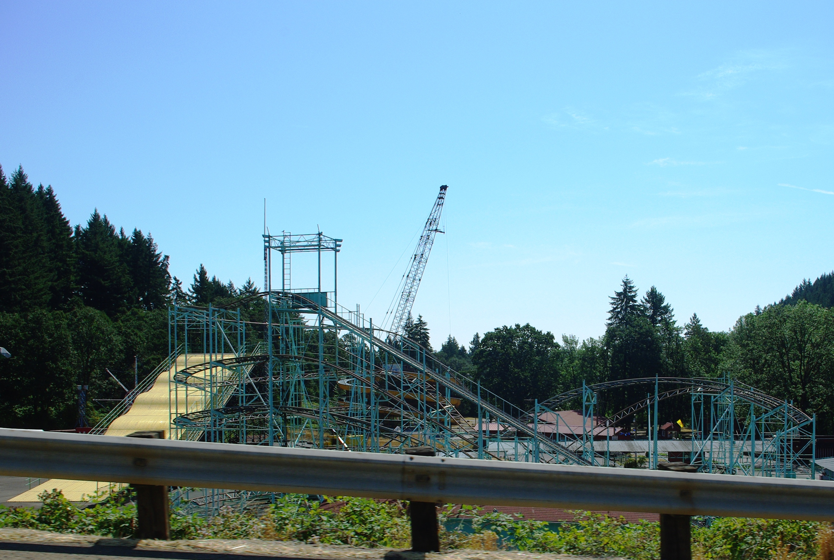 Thrill-Ville USA near Turner, Oregon, USA.